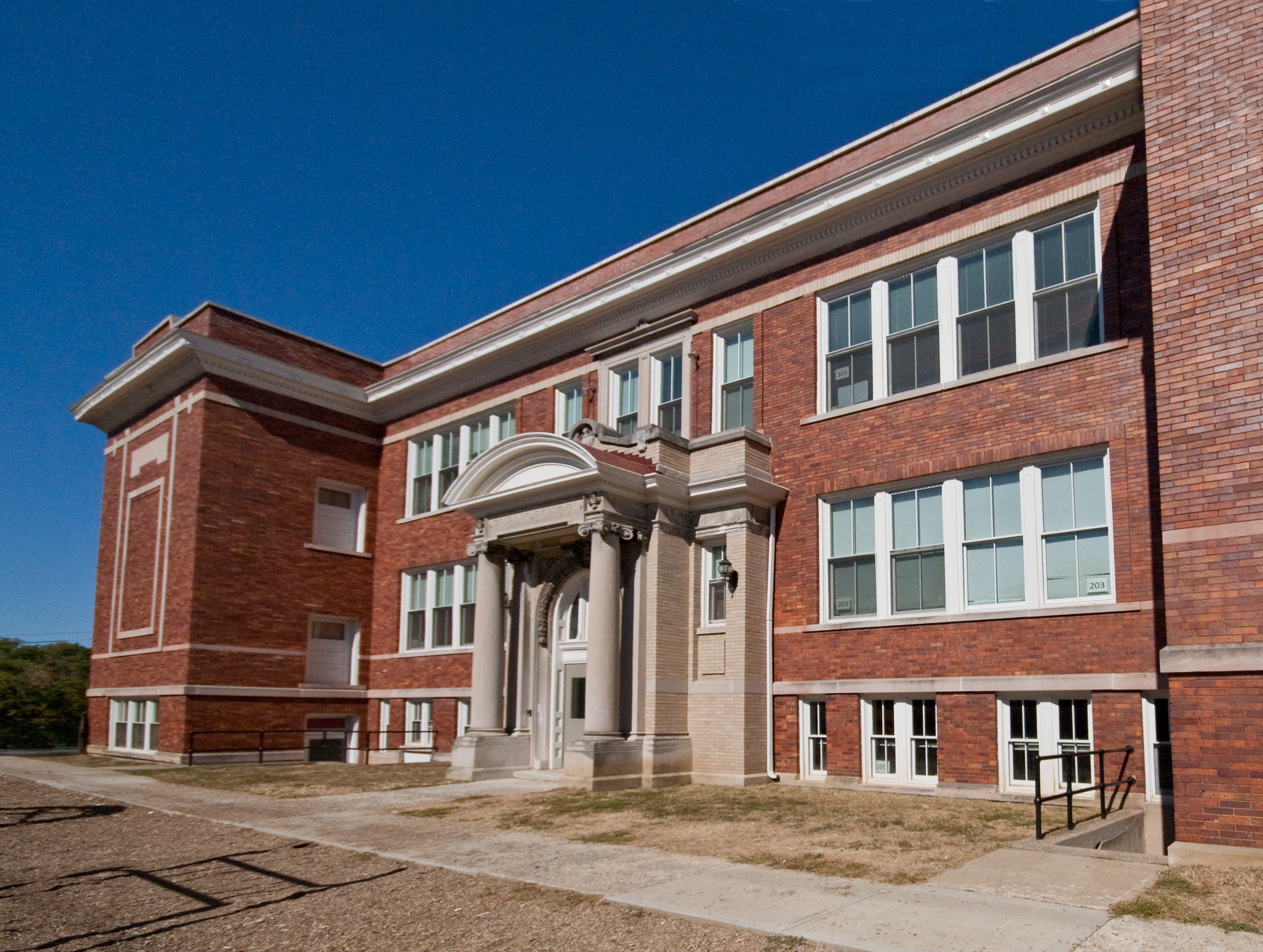 Mt. Healthy School Photo by Greg Hume.